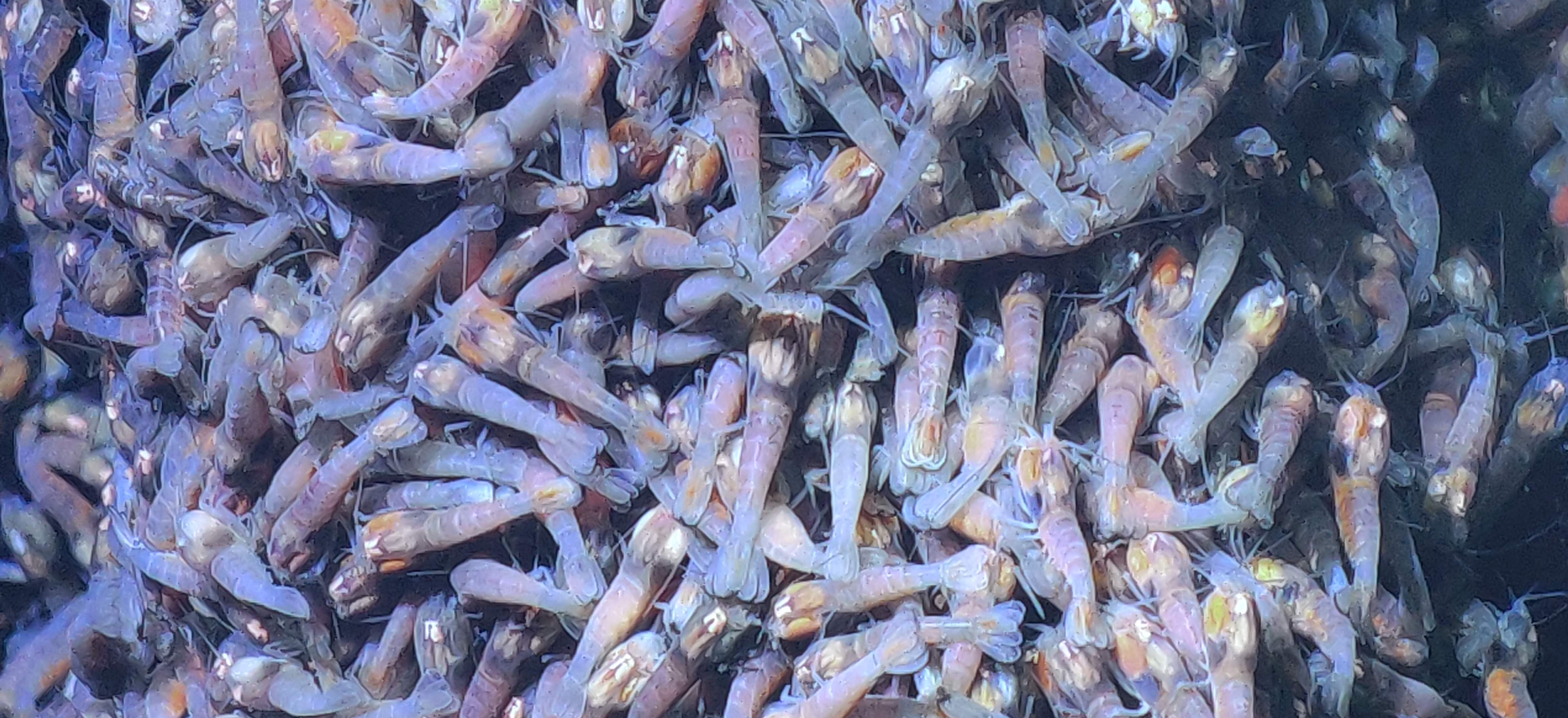 Close-up of the shrimp (Rimicaris hybisae) populating the chimneys of the Beebe (Piccard) vent field near the Beebe 1 site.